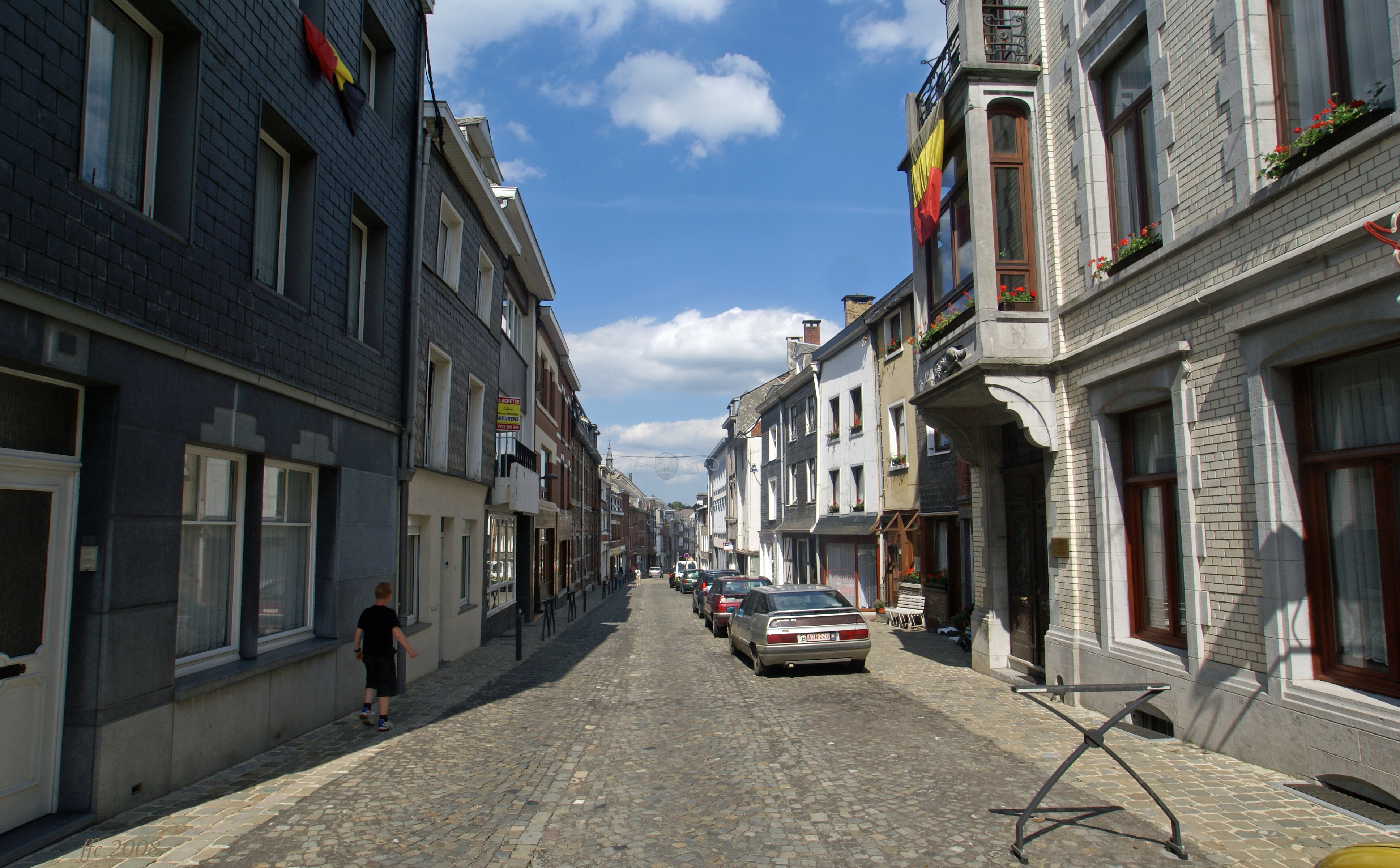 Stavelot (Belgium): Rue Neuve (New Street)